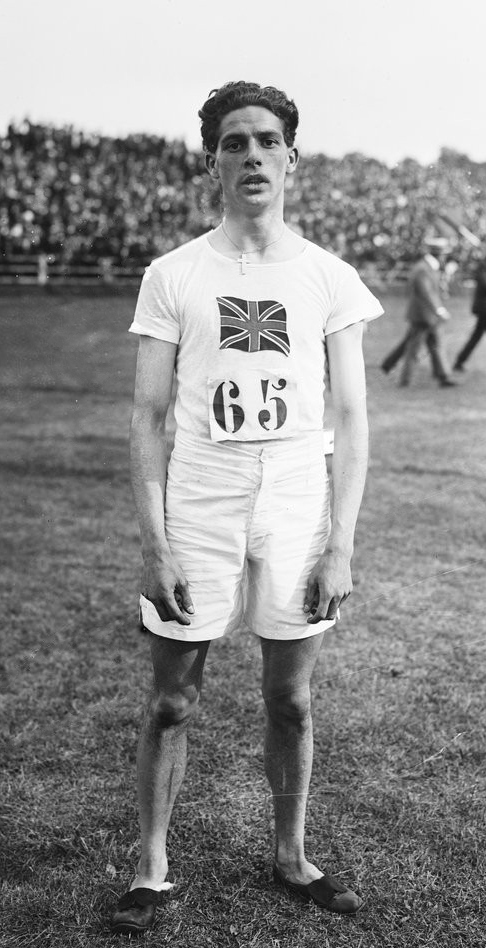 Welsh sprinter Cecil Griffiths in 1921